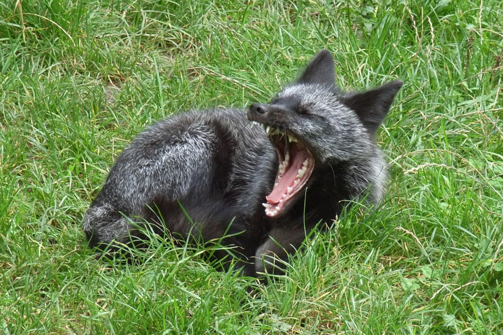 Silver fox